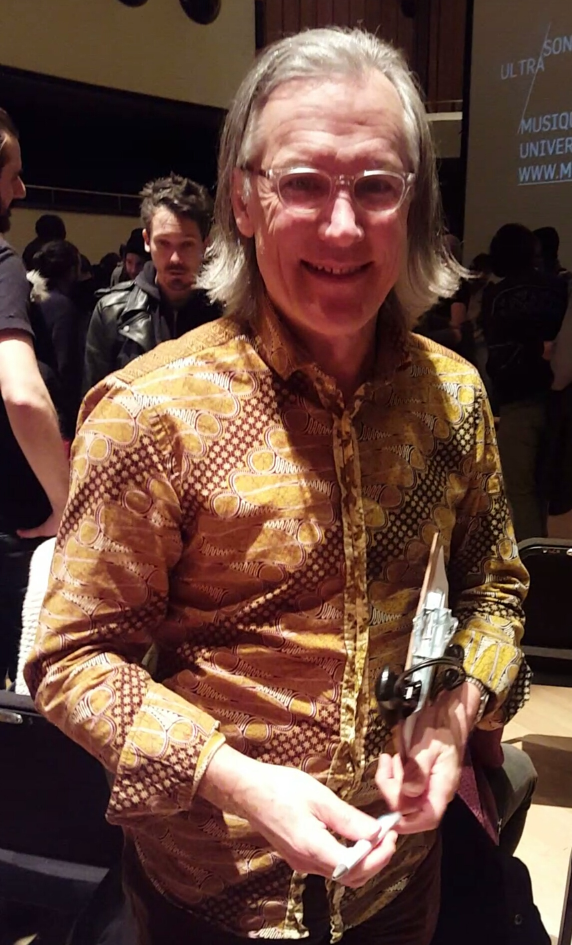 Robert Normandeau photographed in Montreal, Quebec, Canada at the Salle Claude-Champagne.